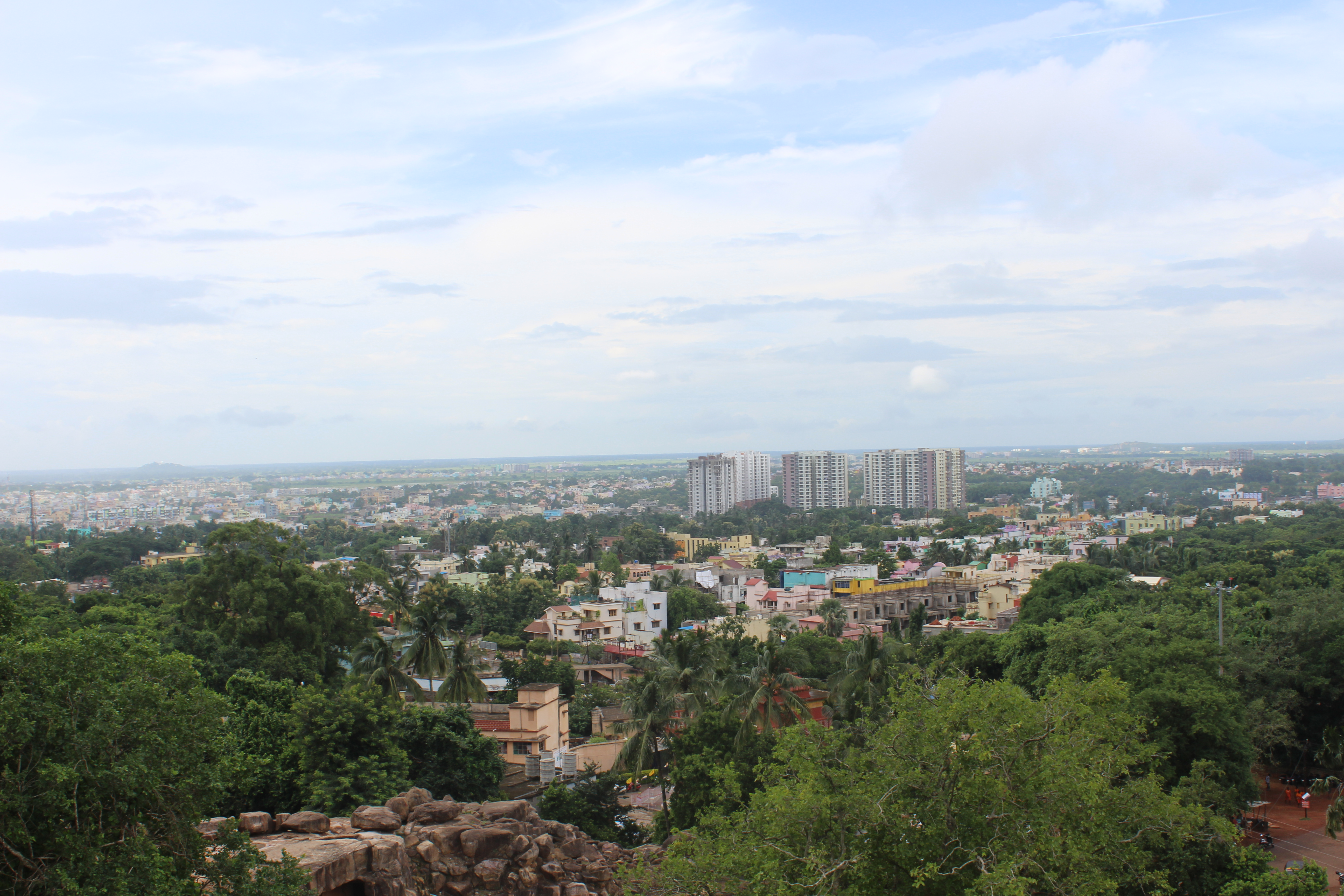 Bhubaneswar skyline from Khandagiri hill.